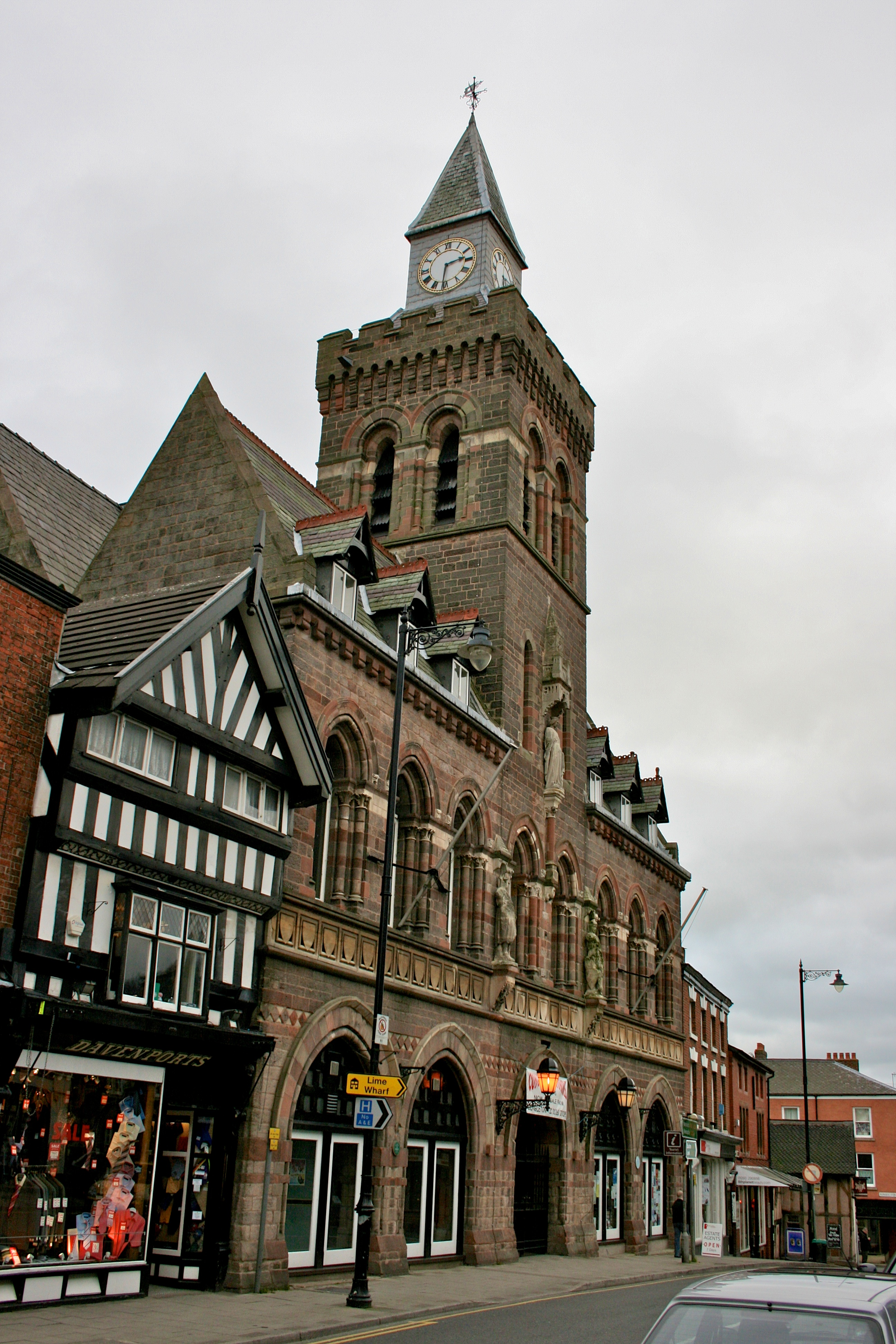 Town Hall, Congleton, Cheshire, UK